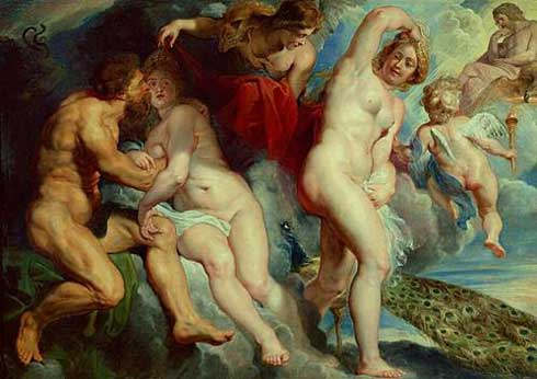 Ixion and Nephelelabel QS:Len,"Ixion and Nephele" label QS:Lsr,"Iksion i Nefela"